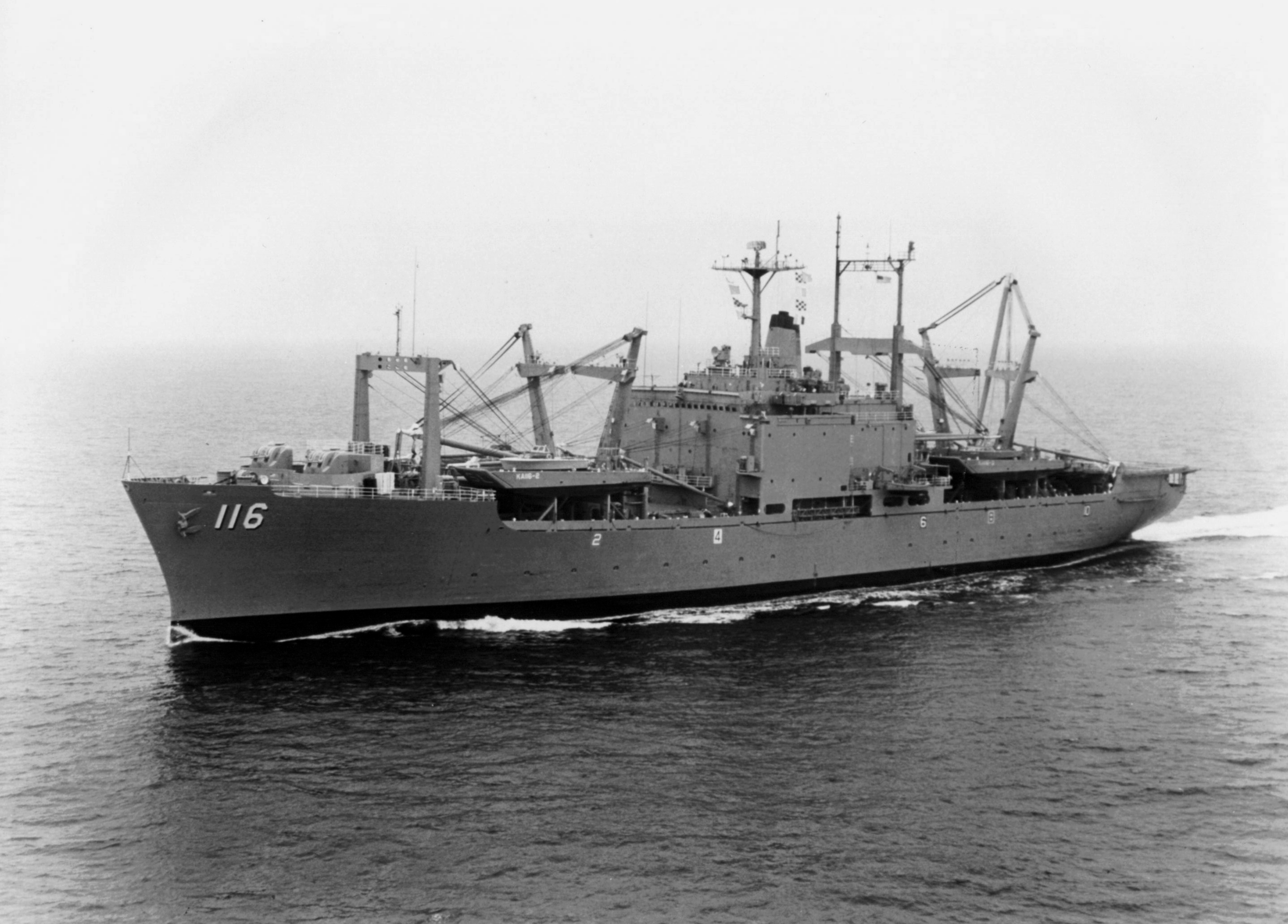 The U.S. Navy amphibious cargo ship USS St. Louis (LKA-116) underway in the Pacific Ocean, 20 July 1976.